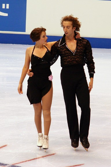 Allie Hann-McCurdy & Michael Coreno at the 2006 Skate America.